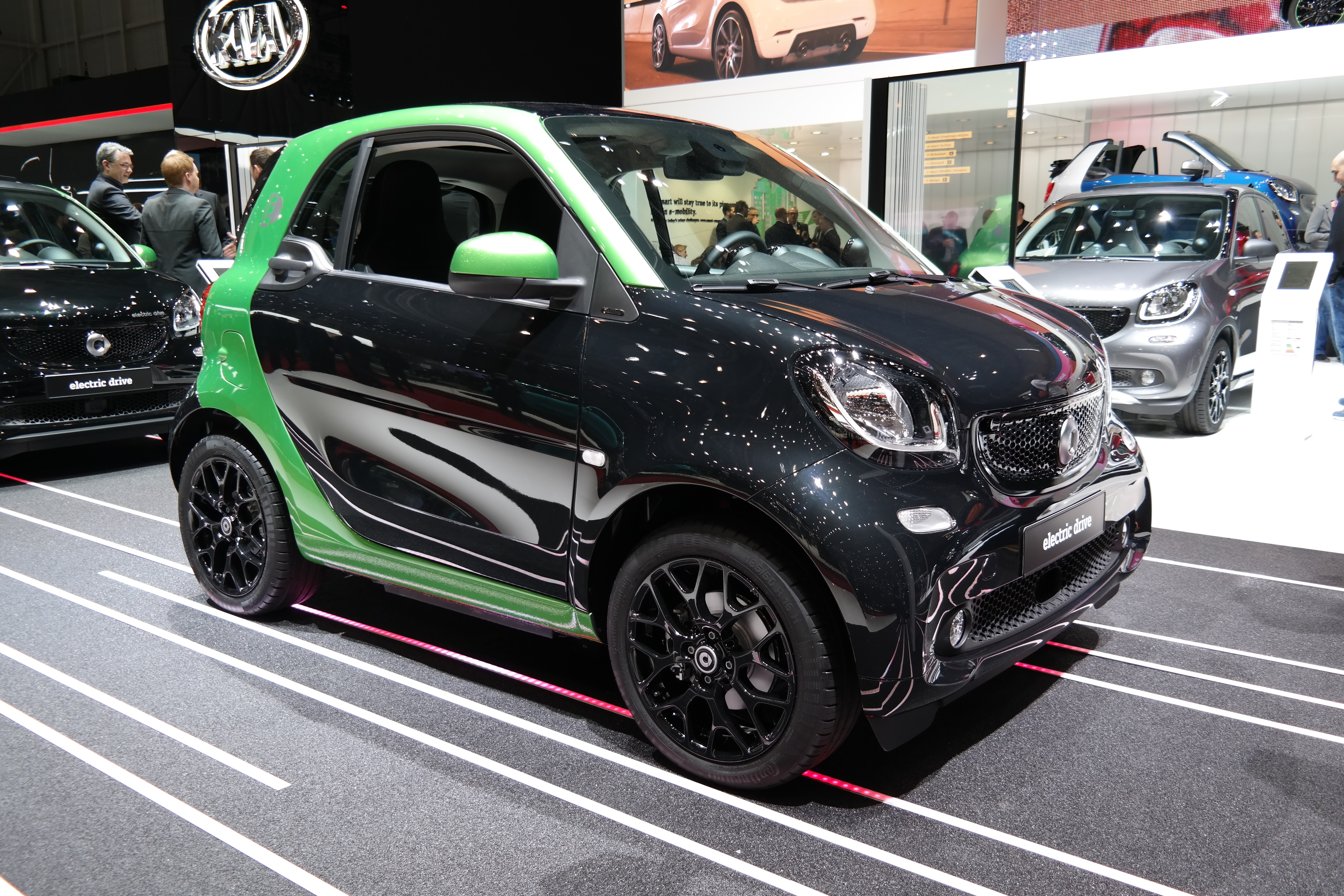 Geneva Motor Show 2017 (photo taken on the first press day)